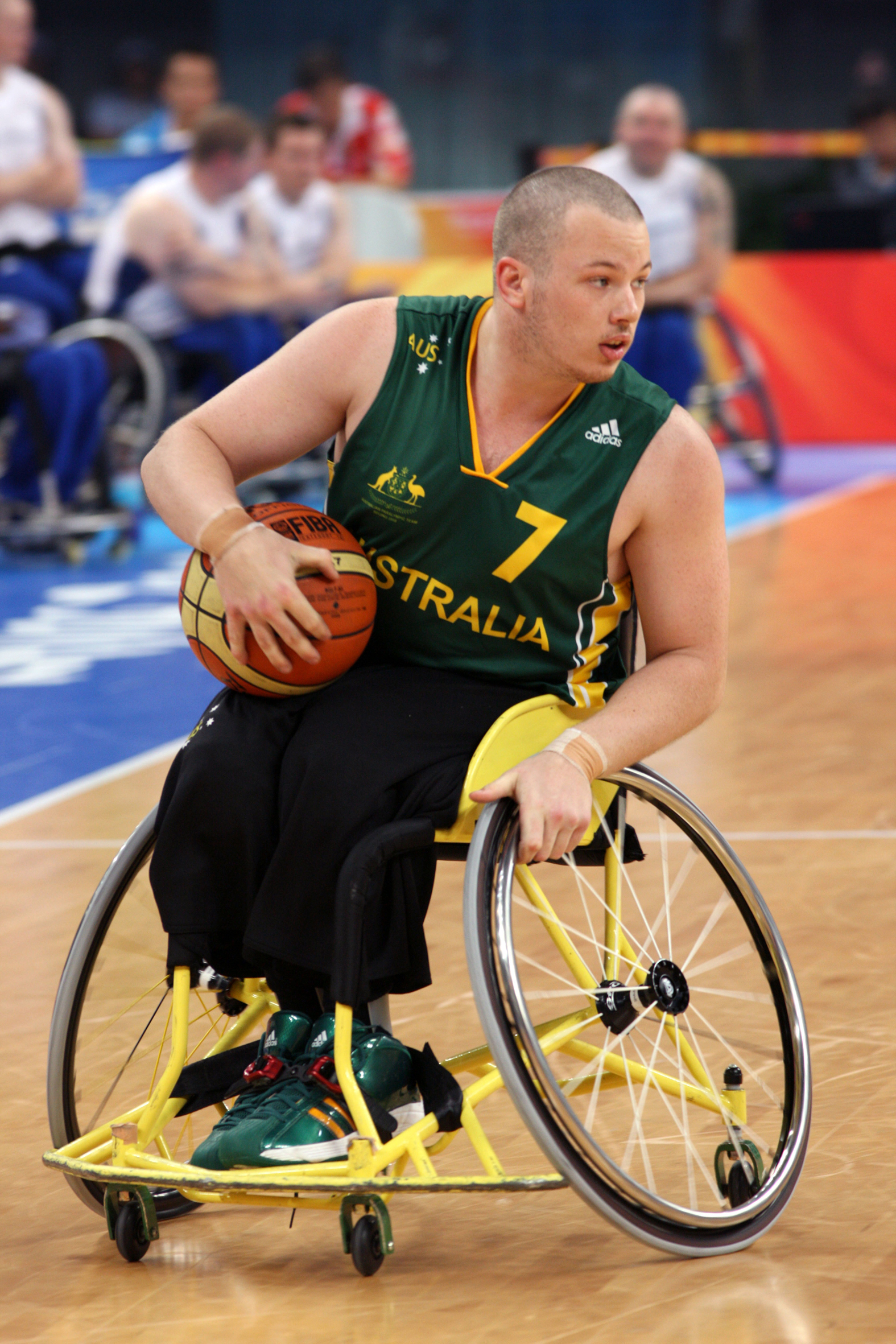 Australian wheelchair basketballer Shaun Norris with the ball at the Beijing 2008 Paralympic Games